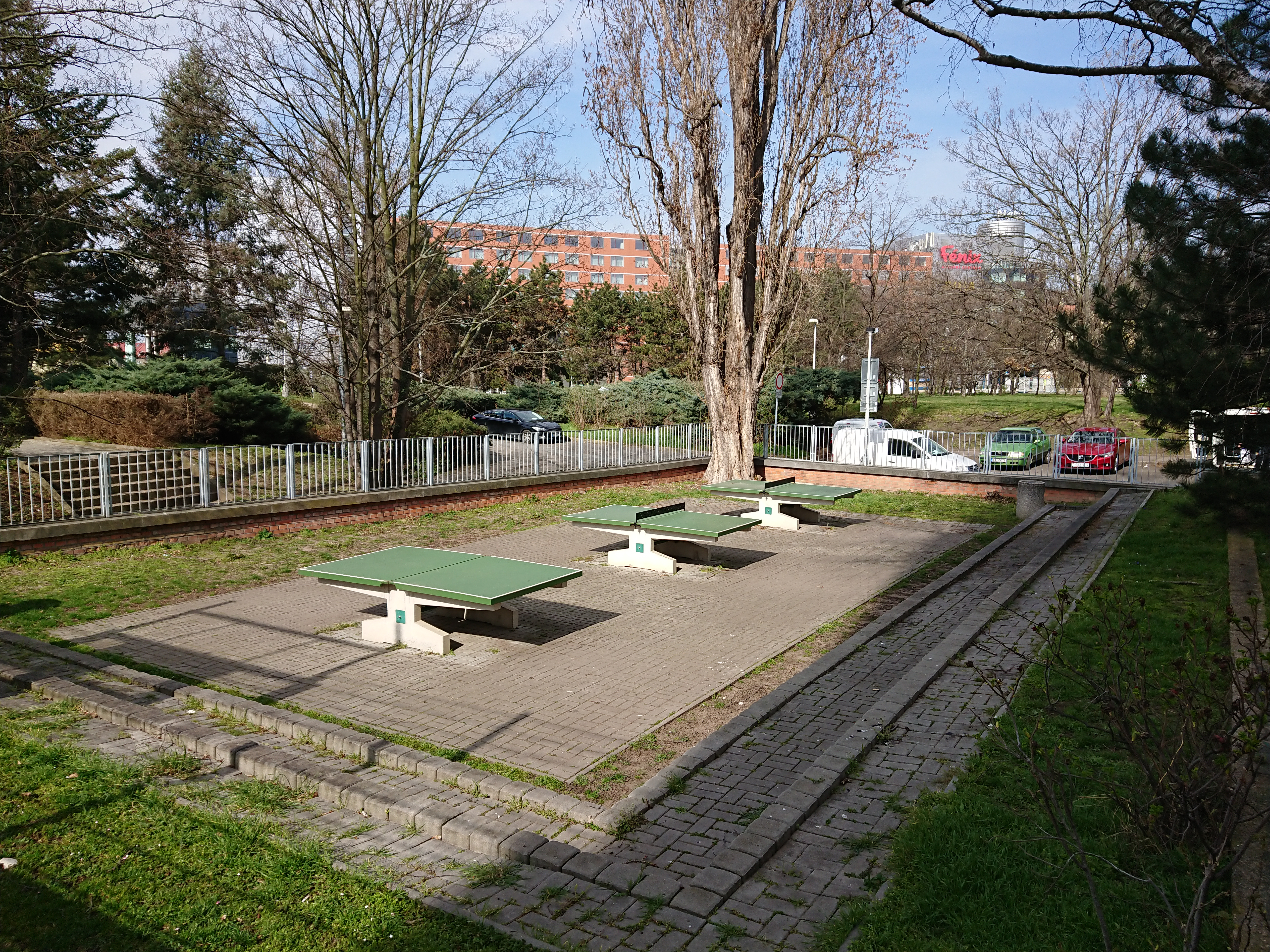 Table tennis grounds at Gymnázium Špitálská, Prague, Czech Republic